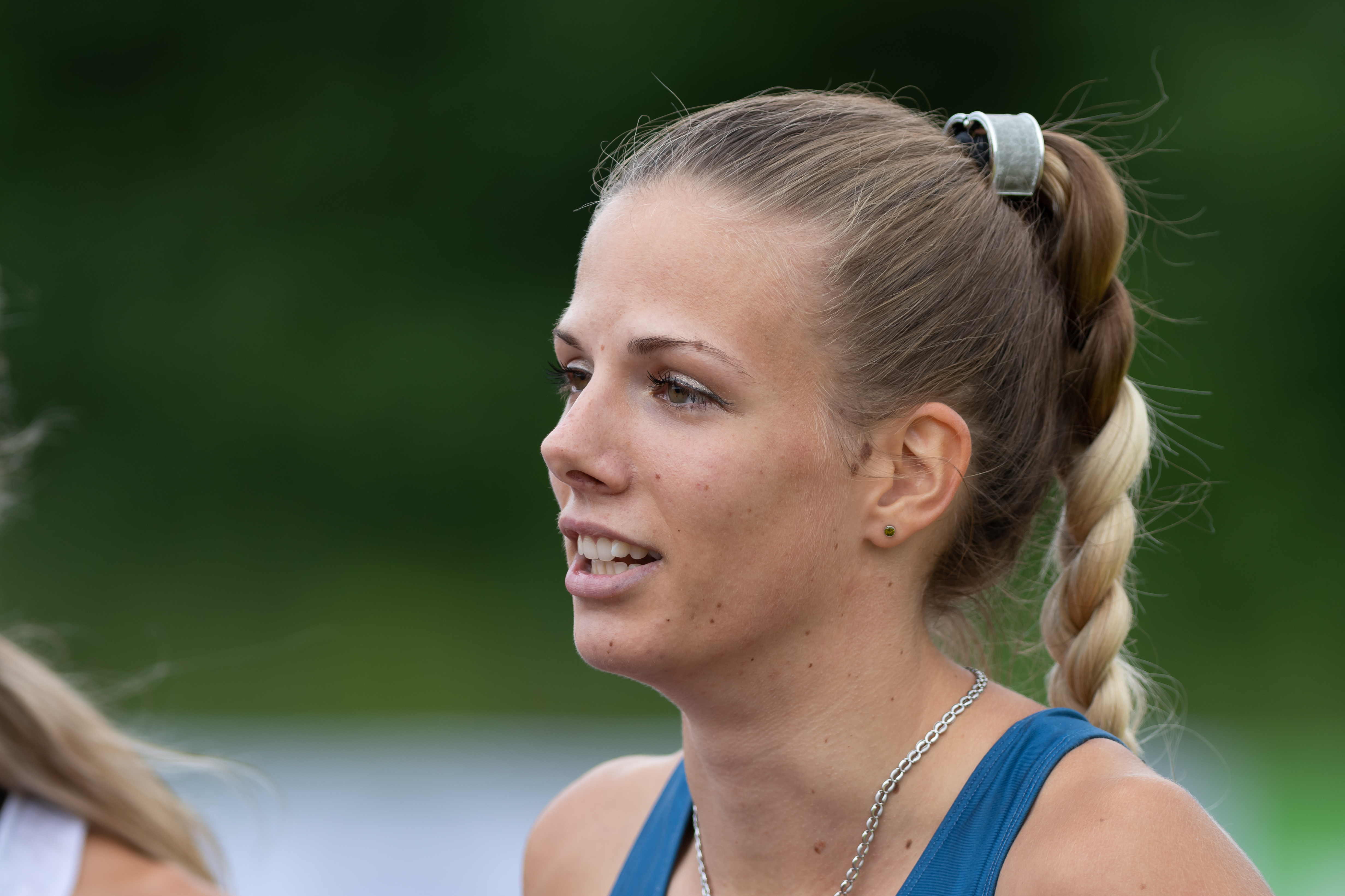 Leichtathletik Gala Linz 2018; women´s 200 m sprint; Pírková Marcela, Univerzitní sportovní klub Praha